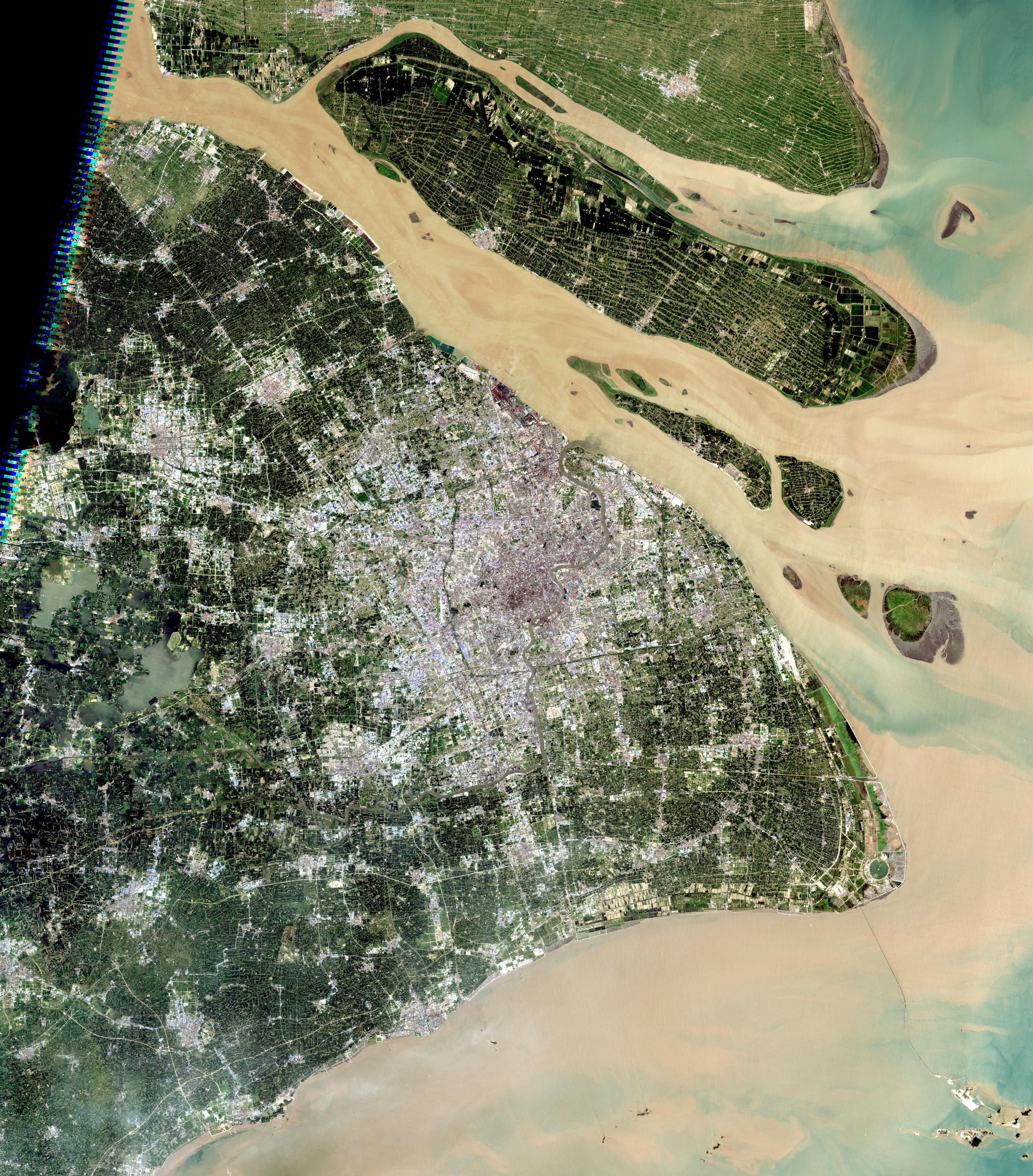 Shanghai, Landsat-7 near natural colors image, 30 m resolution